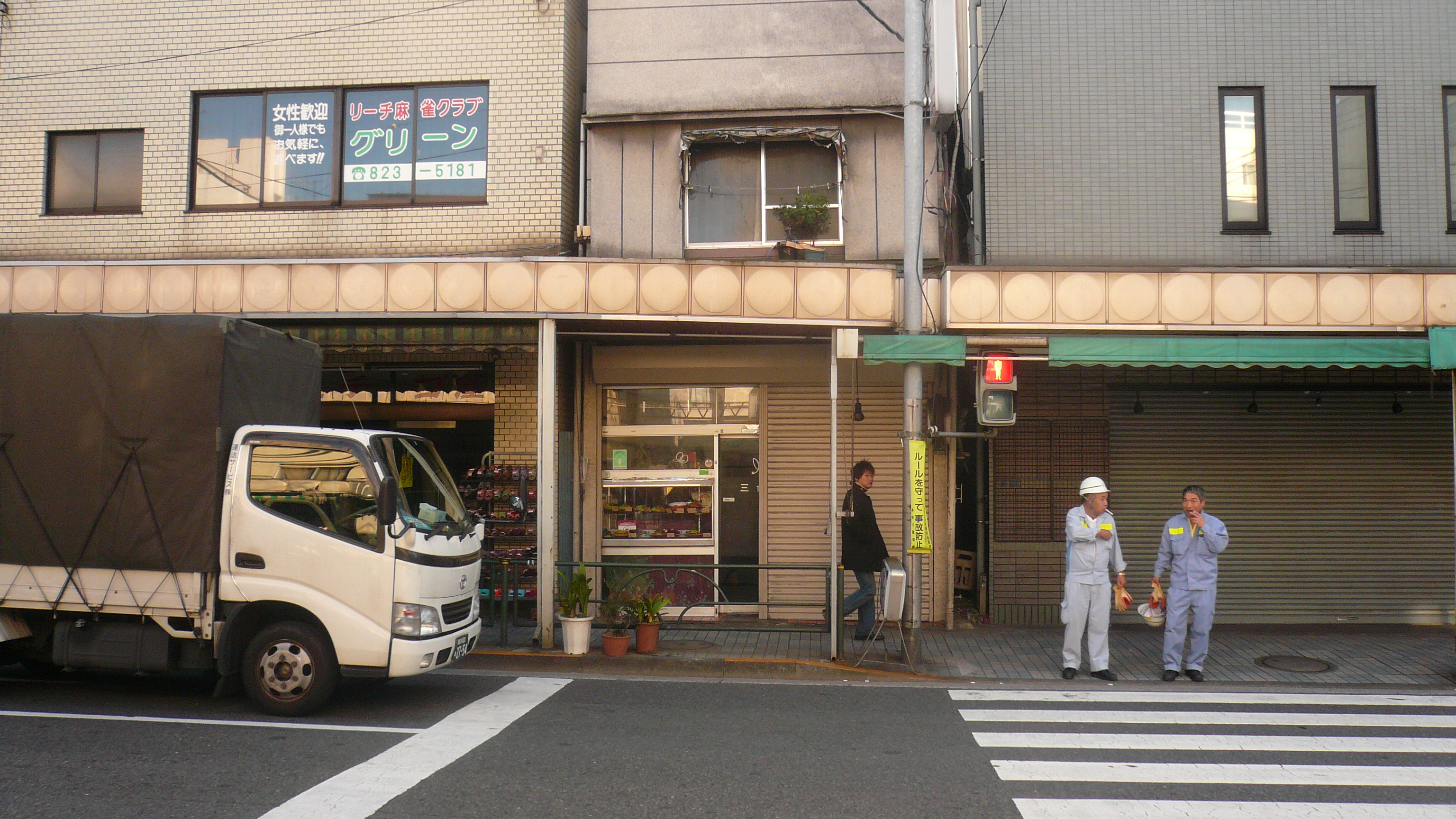 Tabata tôt dans la matinée. Tabata station in the early morning. (A picture taken about 5 minutes walk from the main JR station.)